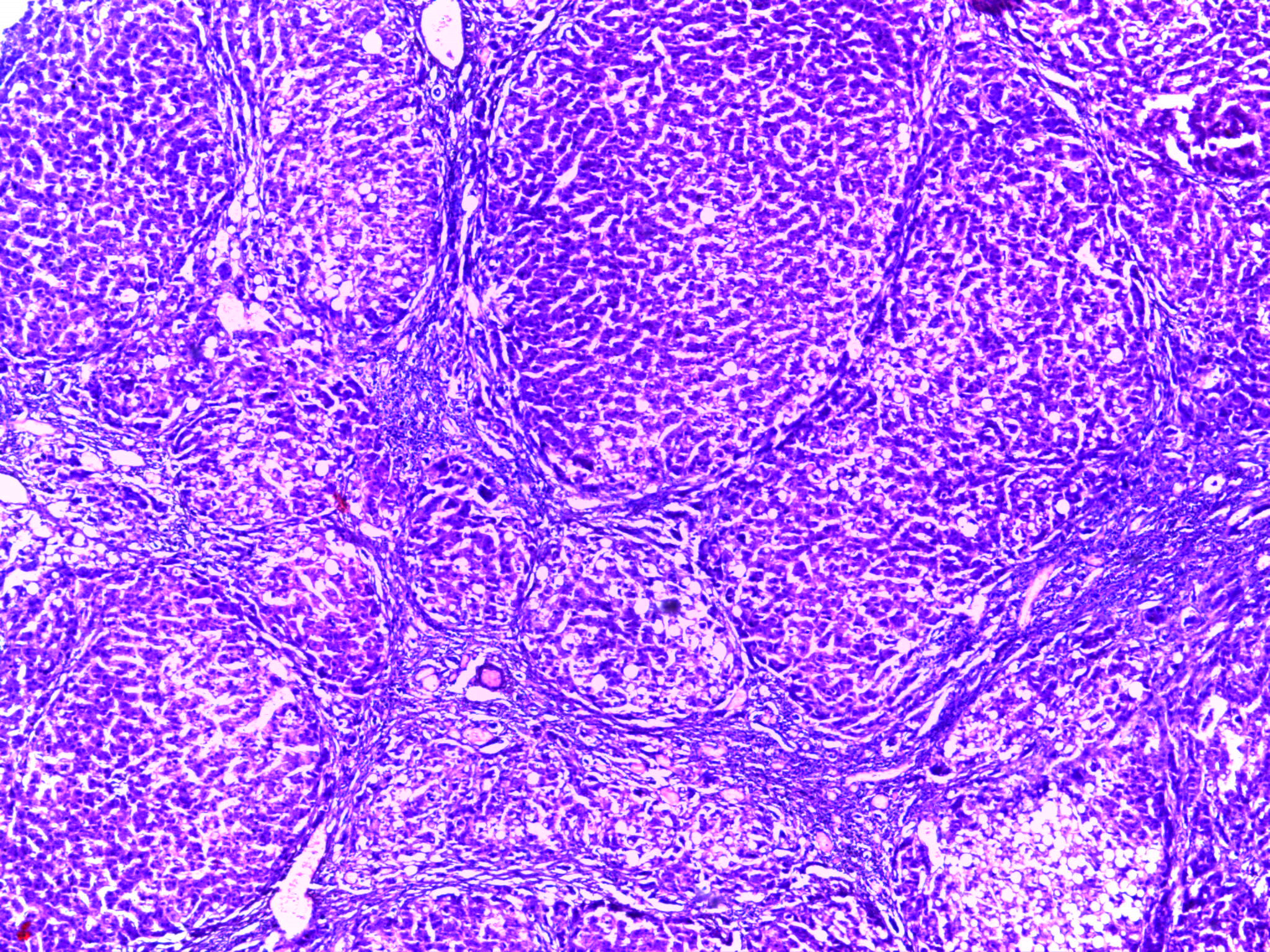 Micrograph of liver showing nodules of parenchymal liver cells engulfed by broad bands of fibrous tissue. The liver has lost its normal architecture.